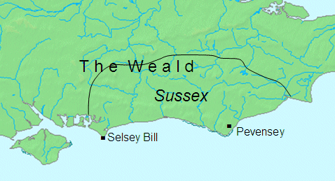 Map of southeastern England showing places relevant to Ælle of Sussex. The file was created using DMIS. On that site it is stated that "We do not claim copyright on the images, so you can use them for Wikipedia."